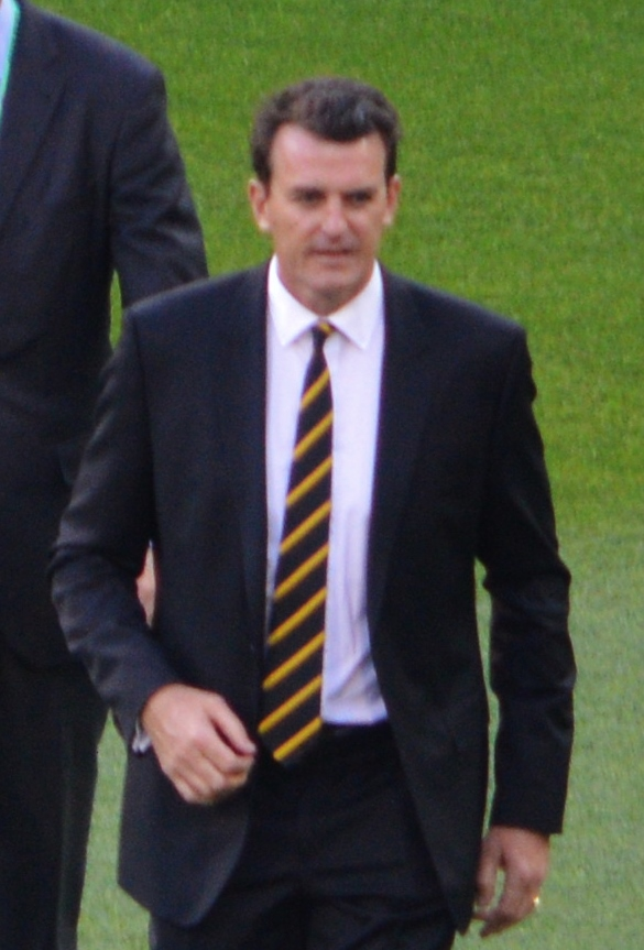 Brendon Gale at the 2017 AFL Premiership flag unfurling ceremony prior to Richmond's round 1 AFL match against Carlton at the MCG.